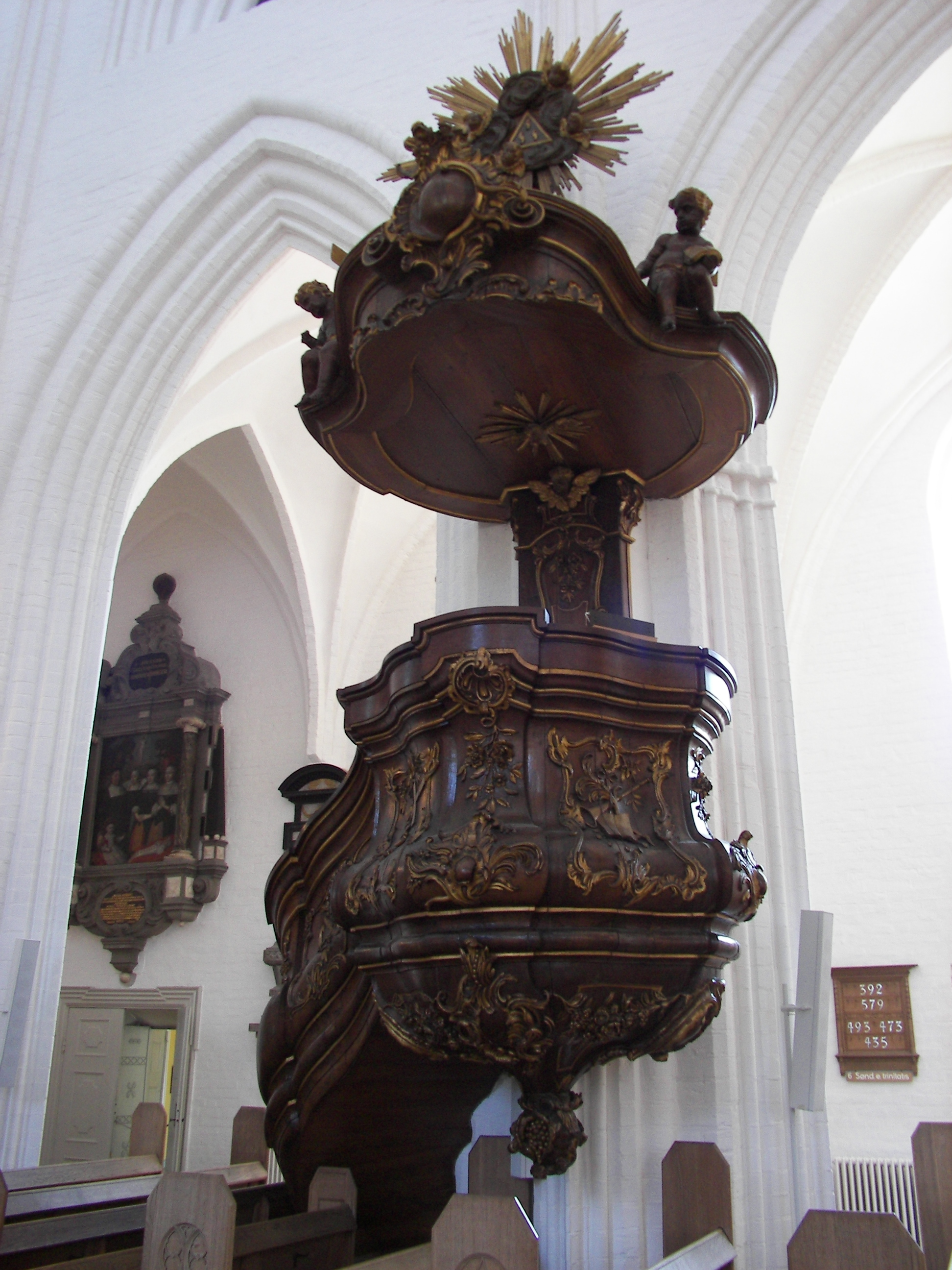 The pulpit in Odense cathedral, Denmark